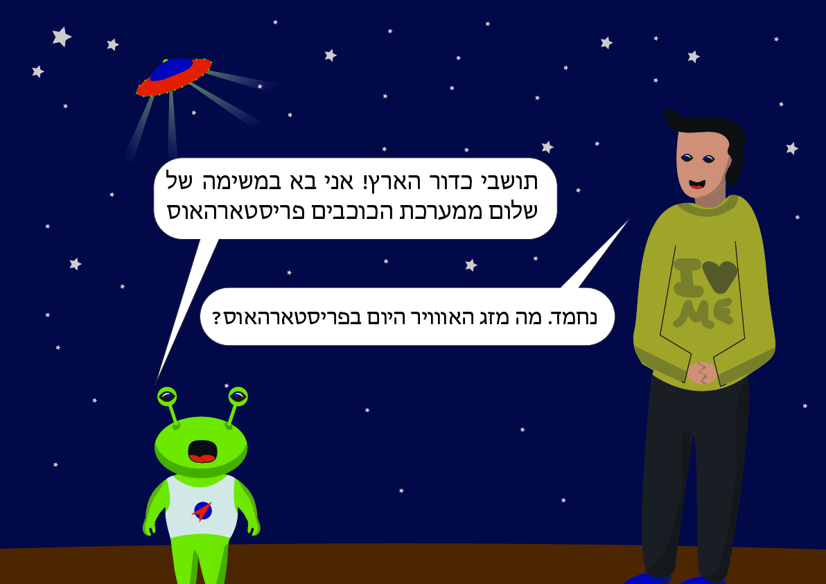 השוני בין אנשים יכול להיות שוני מטורף. ולפעמים המציאות מחייבת לדבר ביחד. אז עולים כל הנושאים המשמימים בעולם כמו מזג אוויר, הסכמי שלום בני מאה שנה ויותר, וכו'. במקרים אלו ינסו המשתתפים לנהל שיחת חולין שאין בה עניין אמיתי לאף אחד מהצדדים.